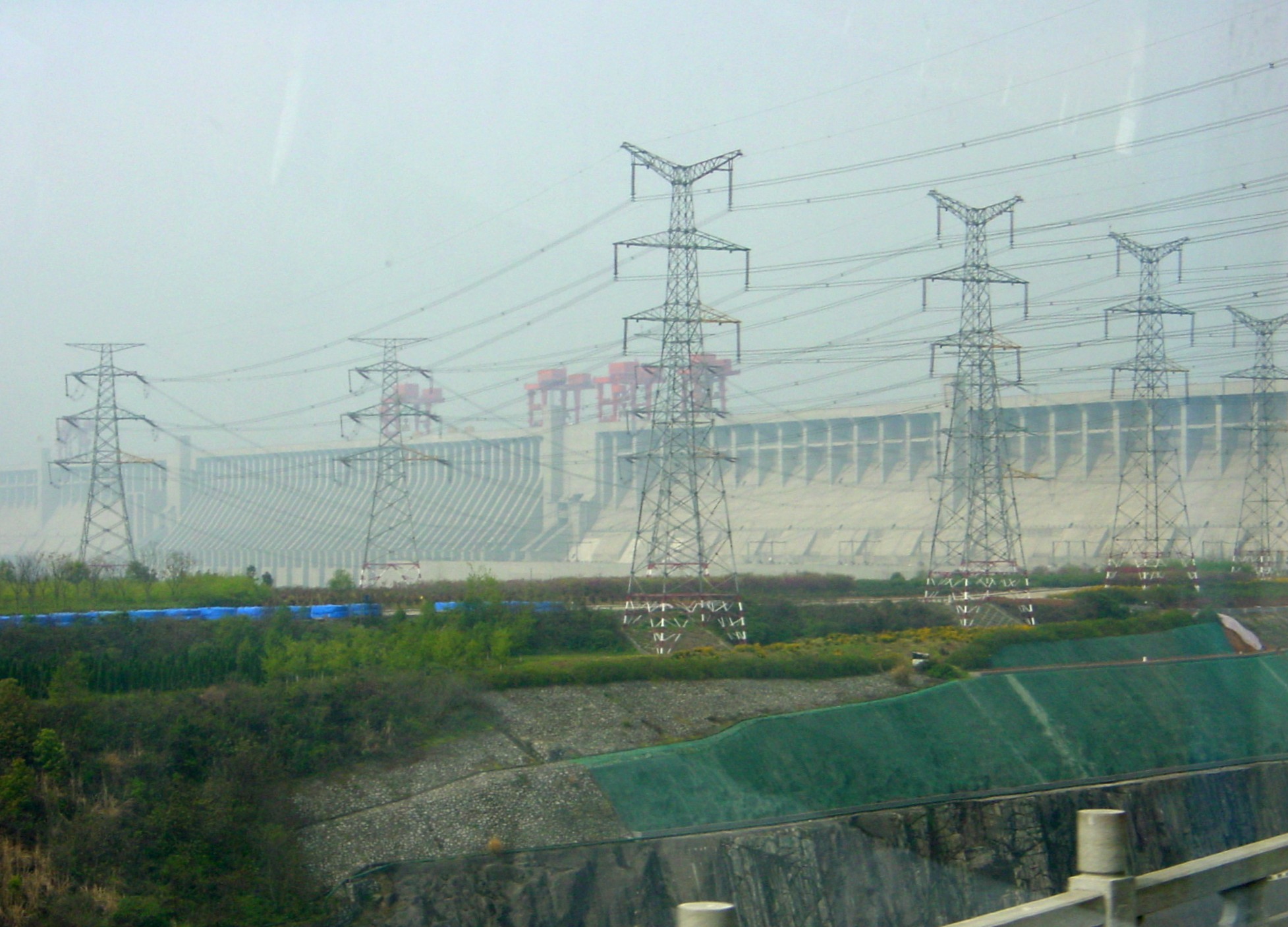 Three gorges dam